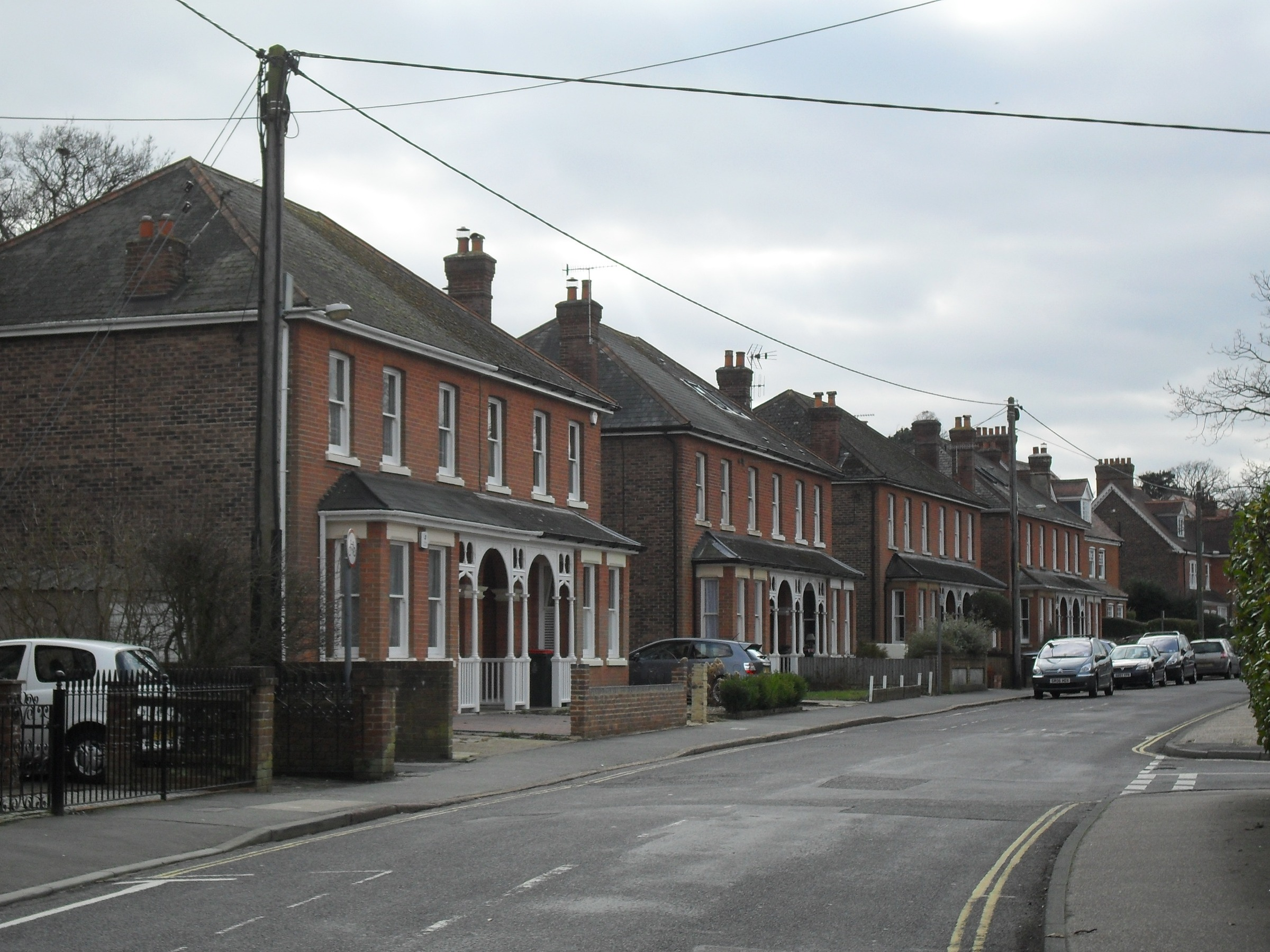 Victorian-era housing in Malthouse Road, Southgate, Crawley, West Sussex, England. Several streets of late 19th-century housing survive in the mostly 1950s and 1970s New Town neighbourhood of Southgate.